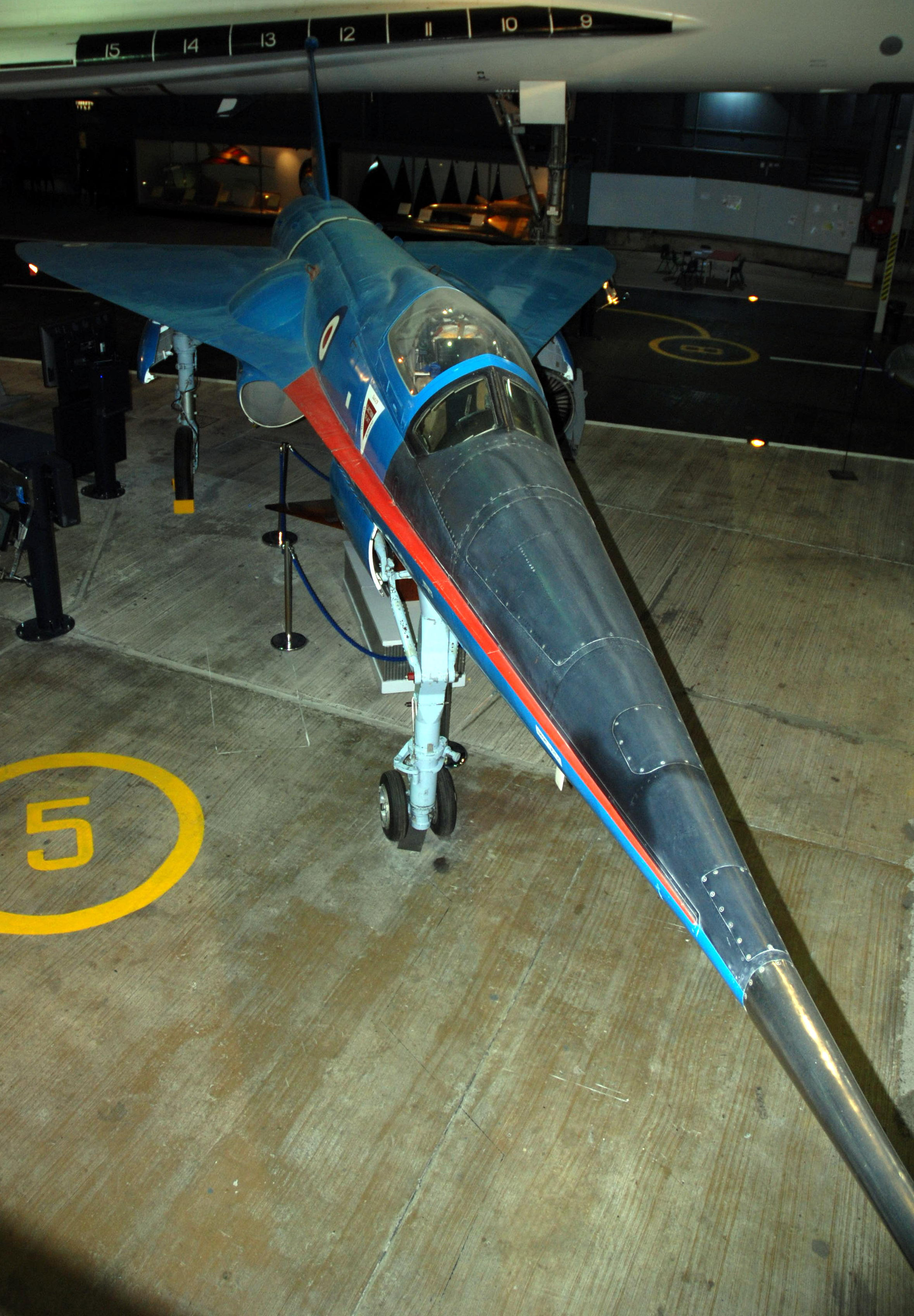 Photo ref; Nikon-D80-2013-DSC_1409 (Edited)